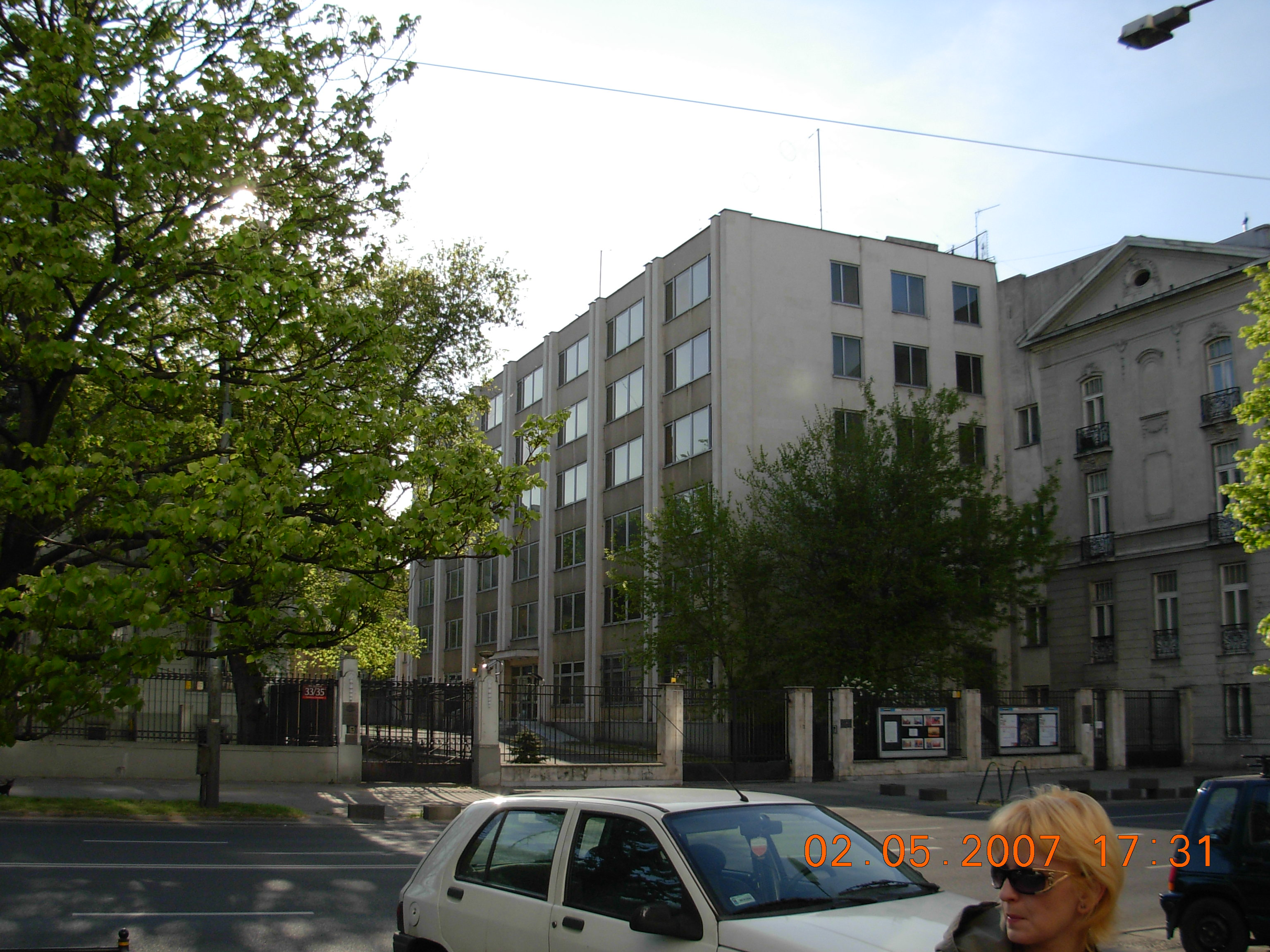 Bulgarian Embassy in Warsaw